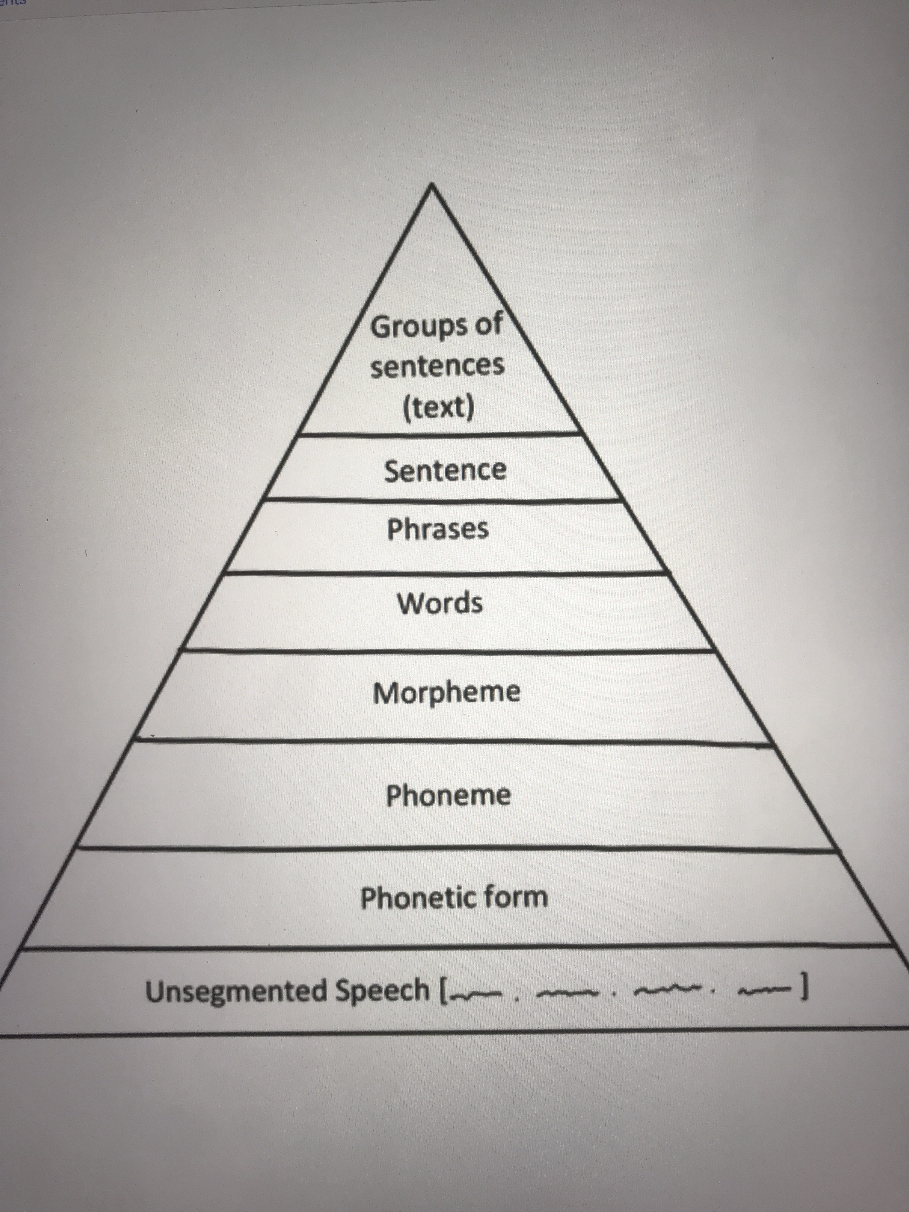 This Diagram represents the order in which the levels of Syntactic Hierarchy appear.